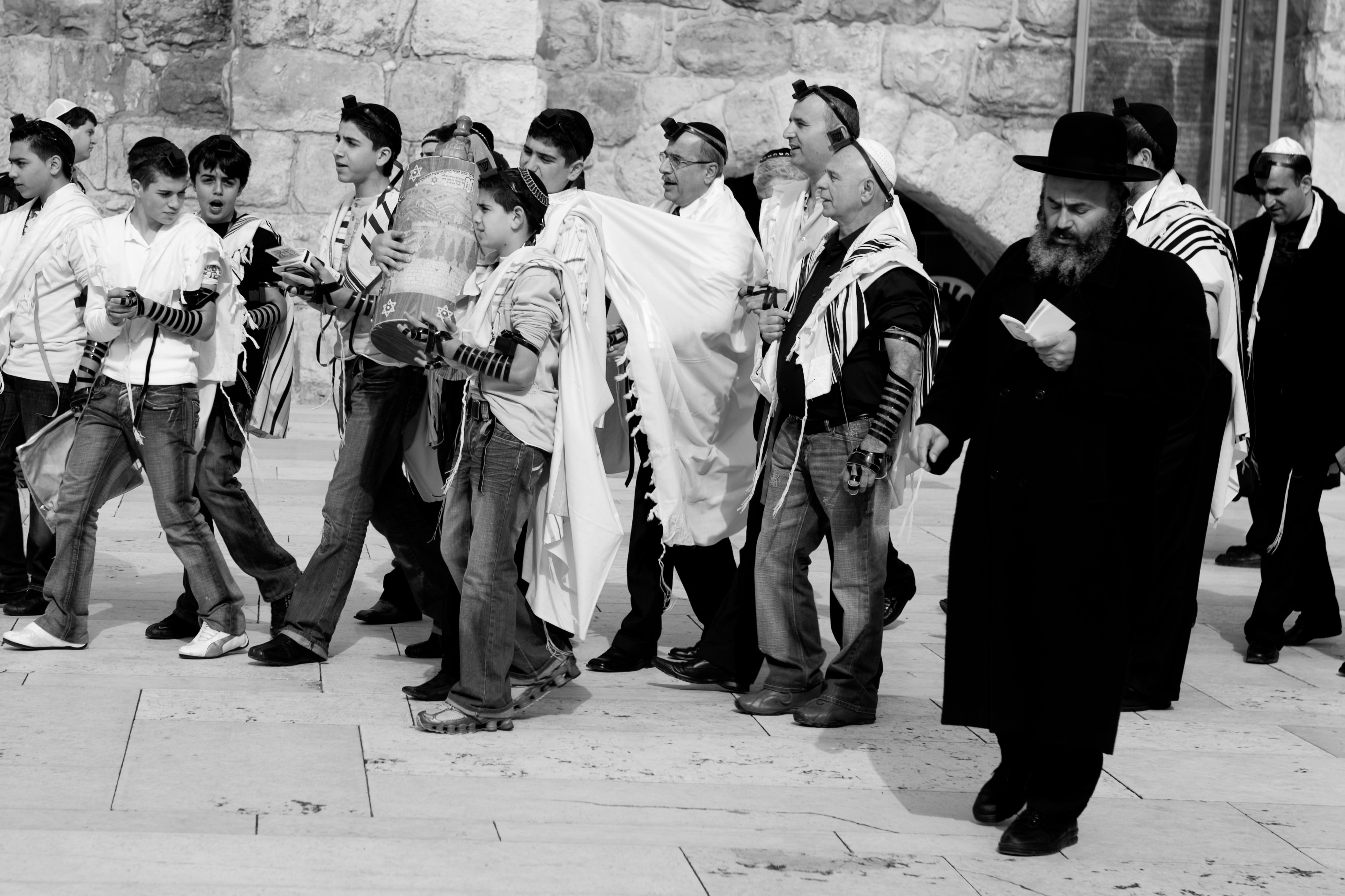 A bar mitzvah takes place at the Western Wall in Jerusalem.